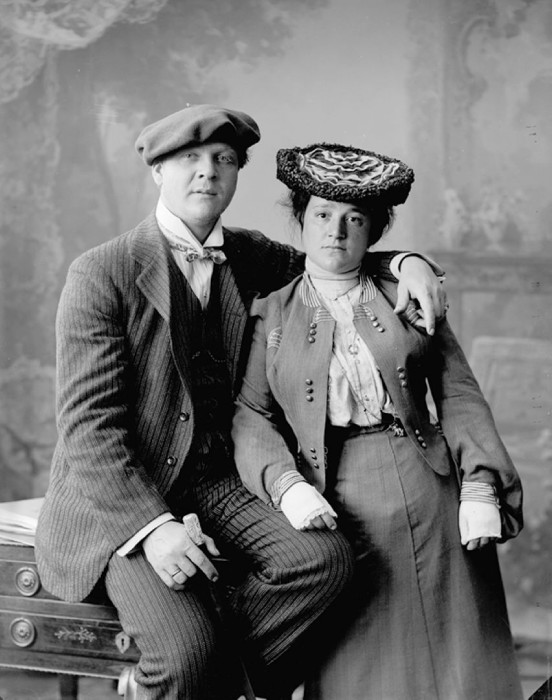 Feodor Chaliapin & Iola Tornagi